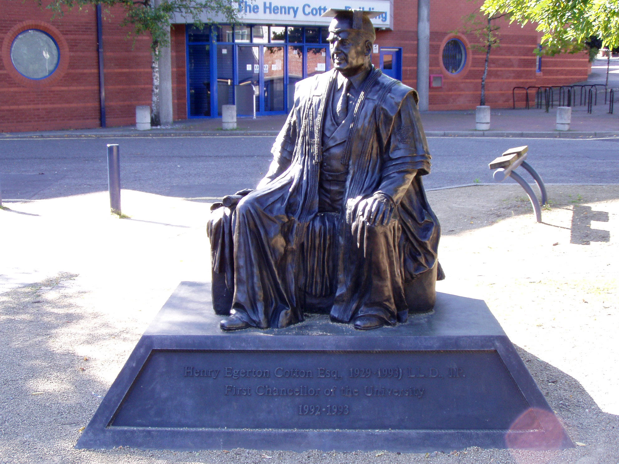 Statues of Henry Egerton Cotton outside LJMU building